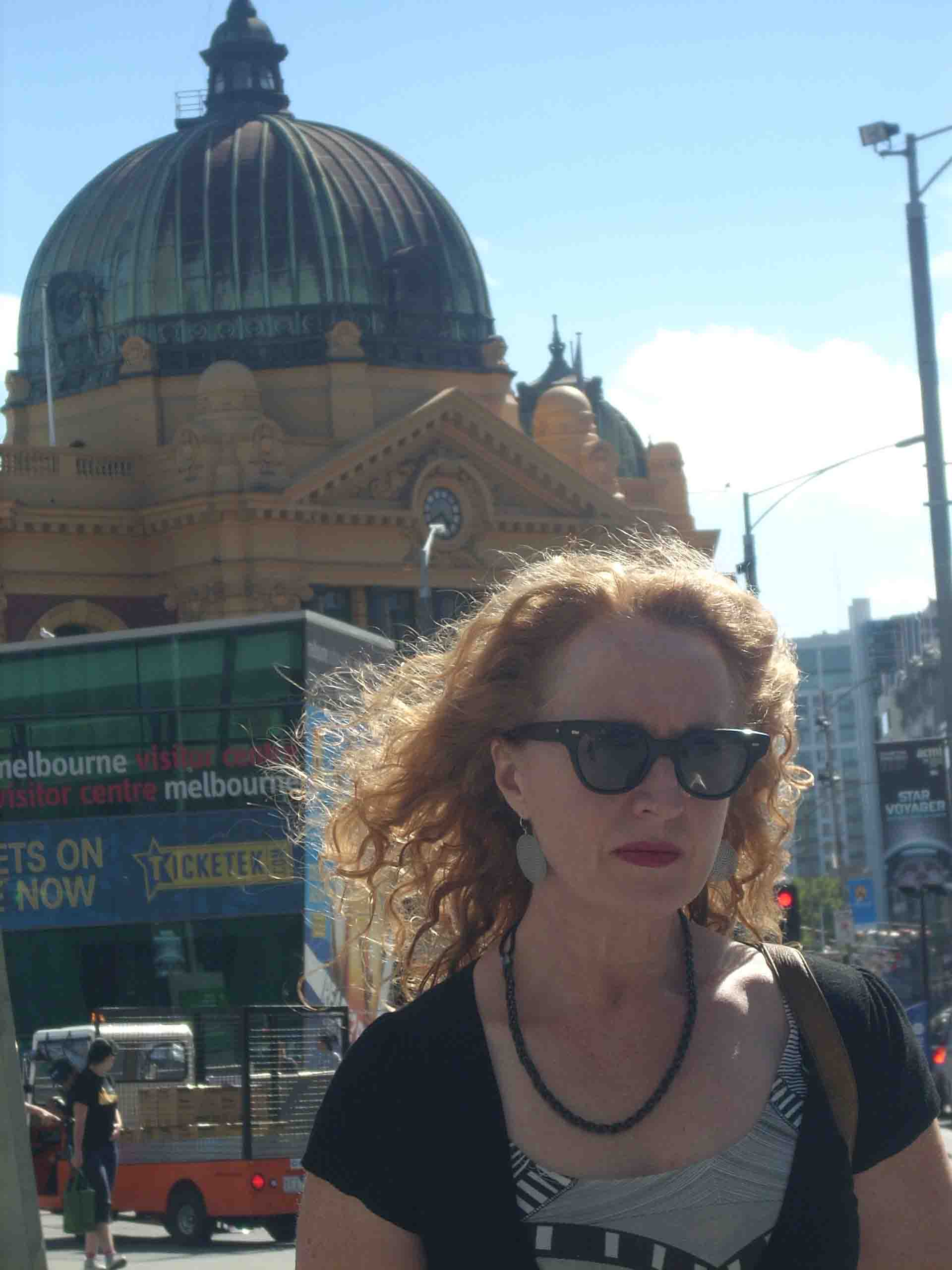 clare moore outside flinders st station, melbourne